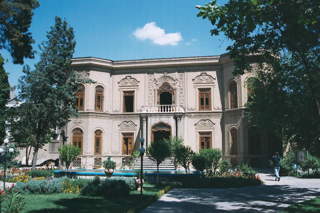 Glass ware and ceramics Museum, Tehran. This museum is set in a 19th cnetury qajar house, formerly the embassy of Egypt.